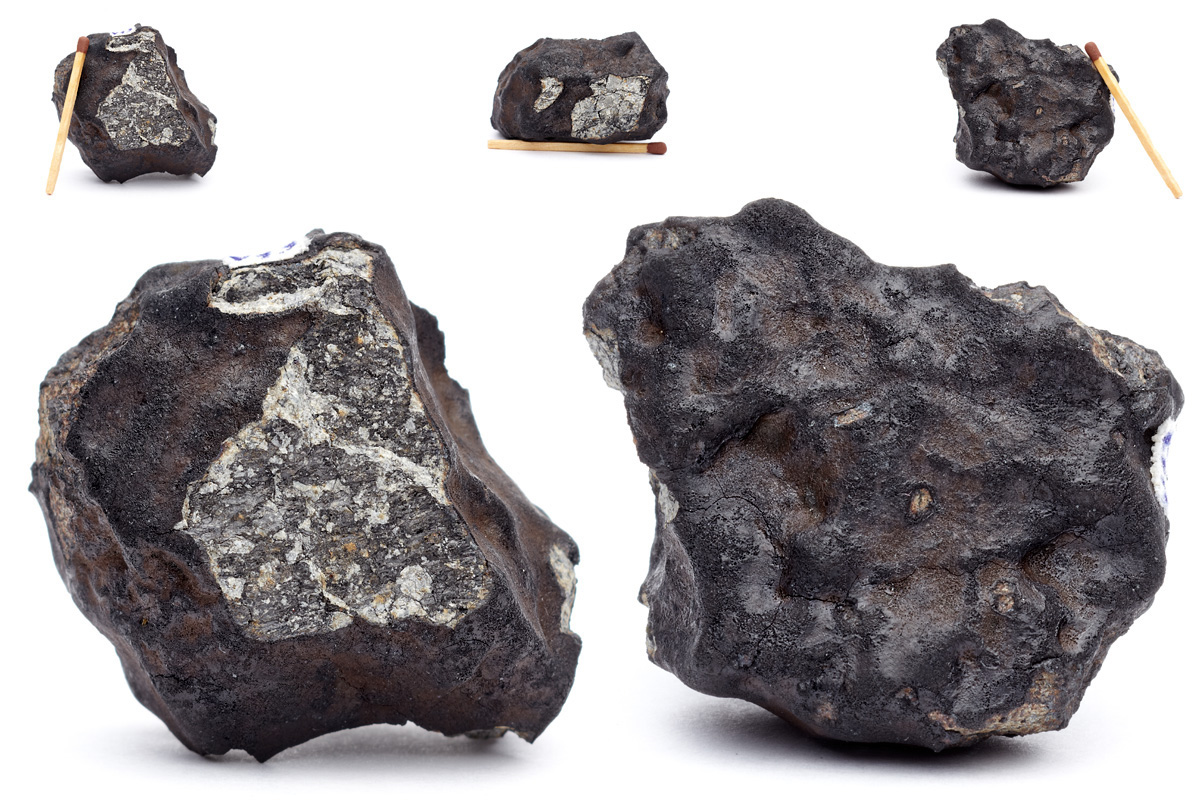 Macro photo of a piece of Chebarkul meteorite made by Ekaterinburg photographer Pavel Maltsev at Ural Federal University.